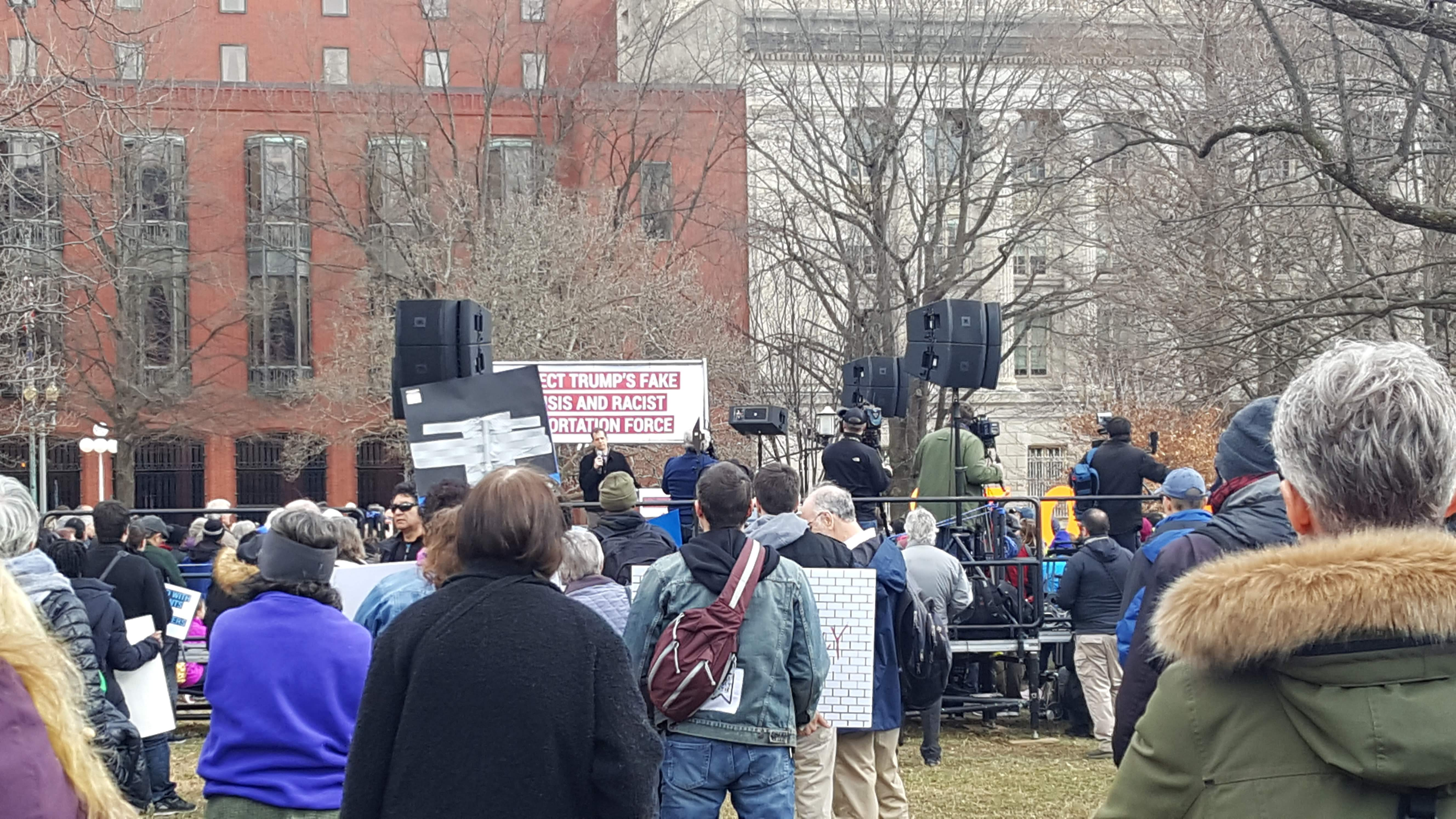 The 2019 Presidents Day protest against Donald Trump's national emergency declaration, in Lafayette Square in Washington, DC